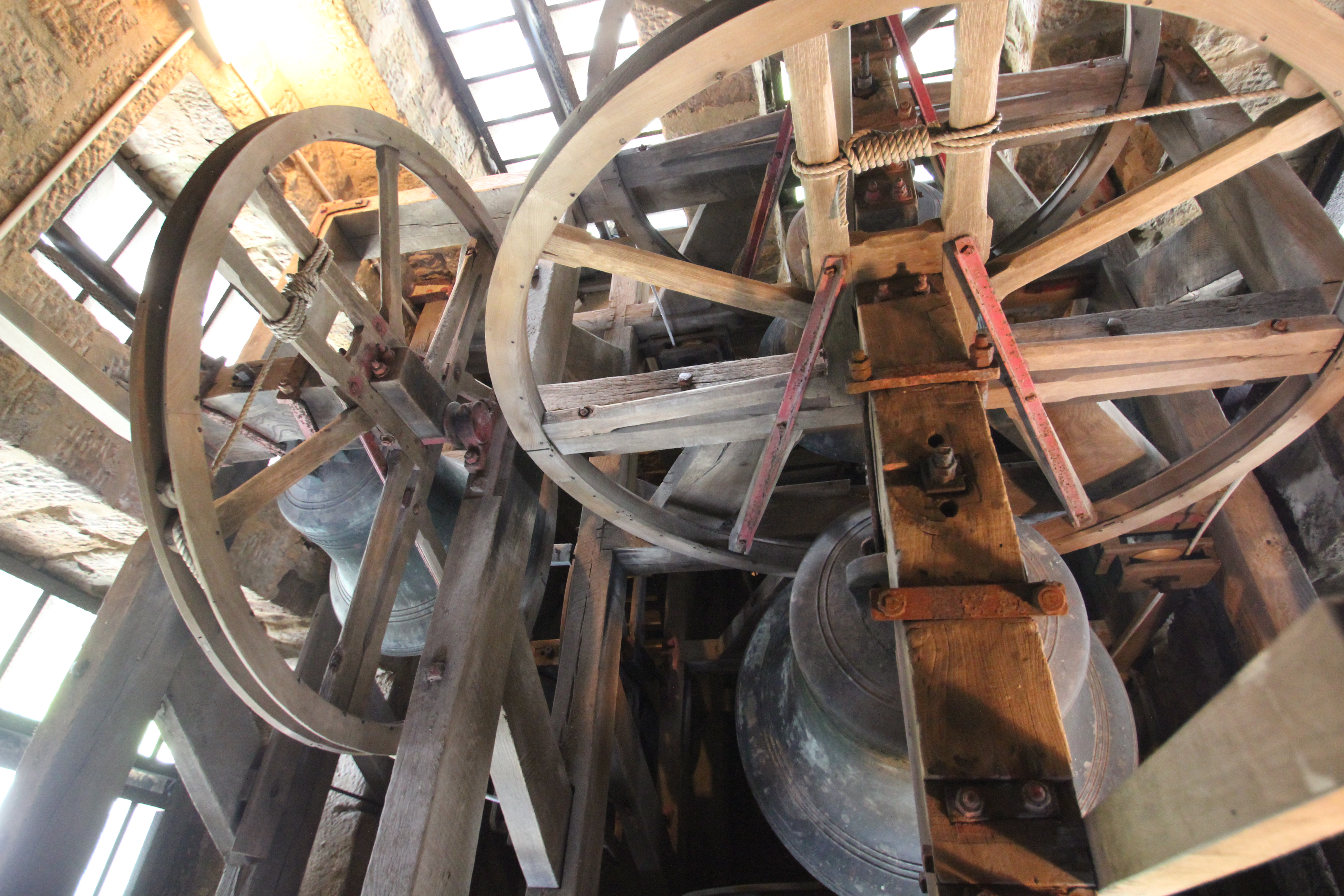 Belfry in tower of St Michael and All Angels Church, Beckwithshaw, North Yorkshire, England. The legend on the bells says "Mears & Stainbank Founders London". There is no public access to the belfry or roof. View looking south over top tier of bells, with bell 5 bottom right (hung over bell 6), bell 3 top right (hung over bell 4), and bell 1 left (hung over bell 2).